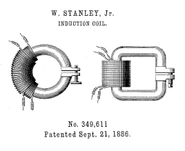 Patent by Stanley for a transformer with an adjustible air gap.